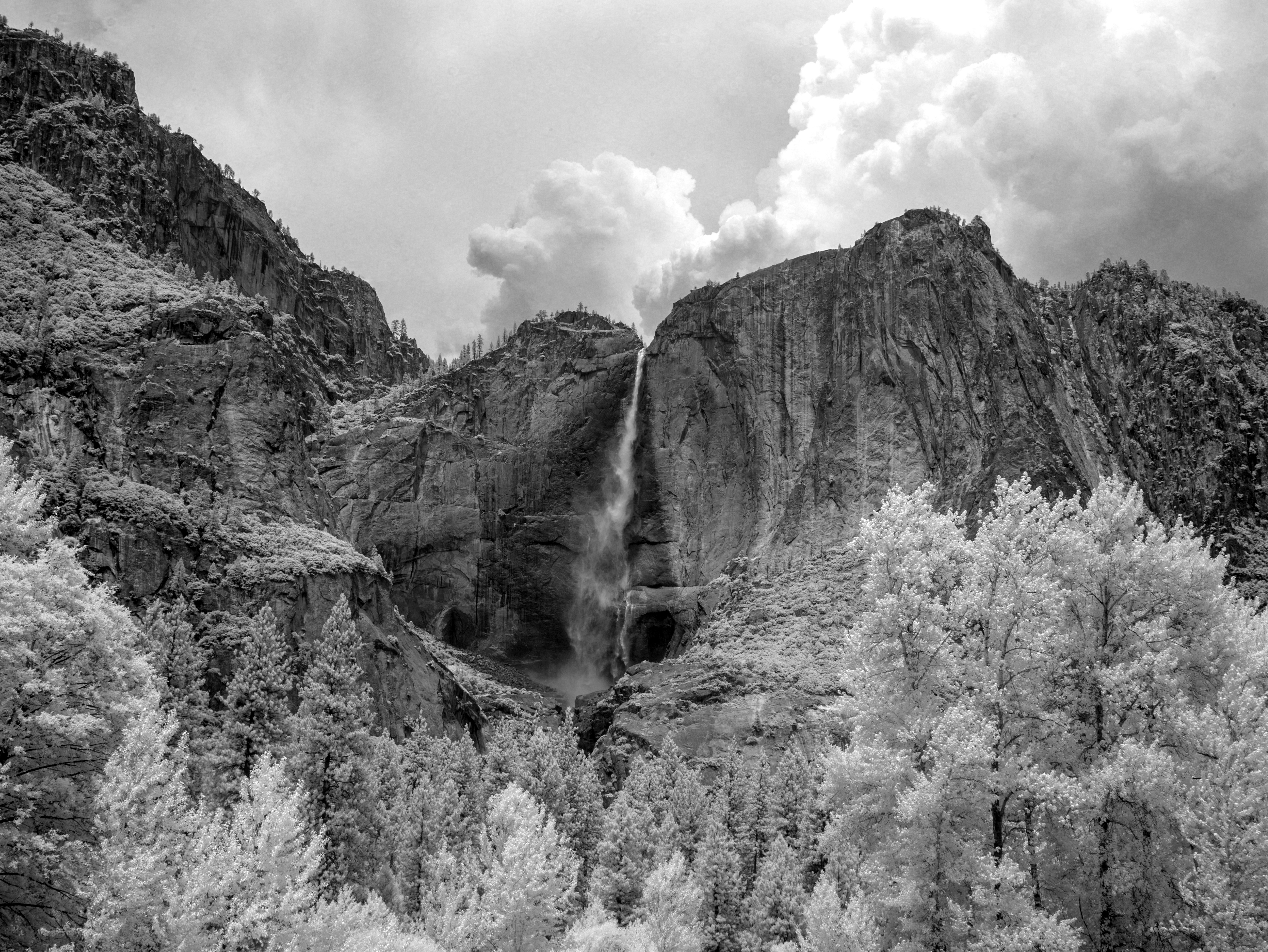 Yosemite National Park spans eastern portions of Tuolumne, Mariposa and Madera counties in California, United States.